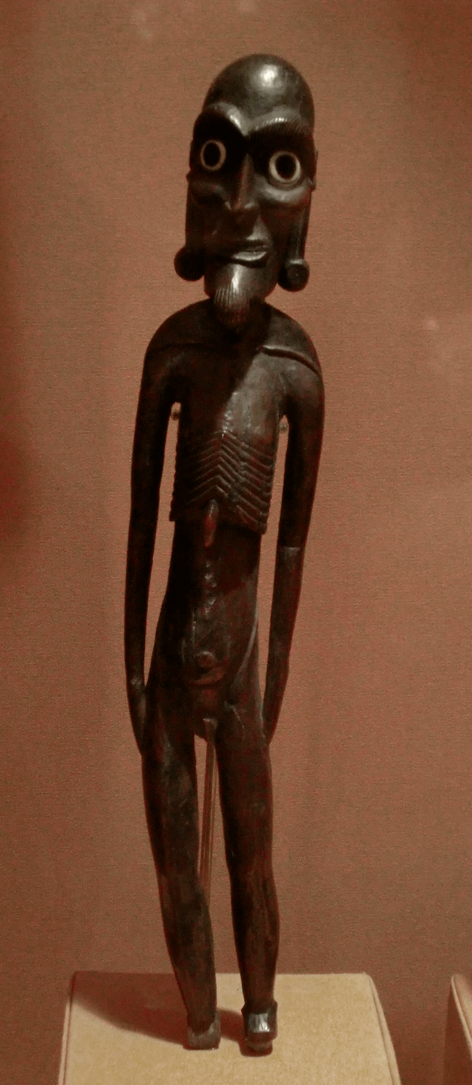 Thin Moai Kavakava from Easter Island with thanks to Museo Etnográfico Juan B. Ambrosetti, Buenos Aires, for permission to take photos of their collection.